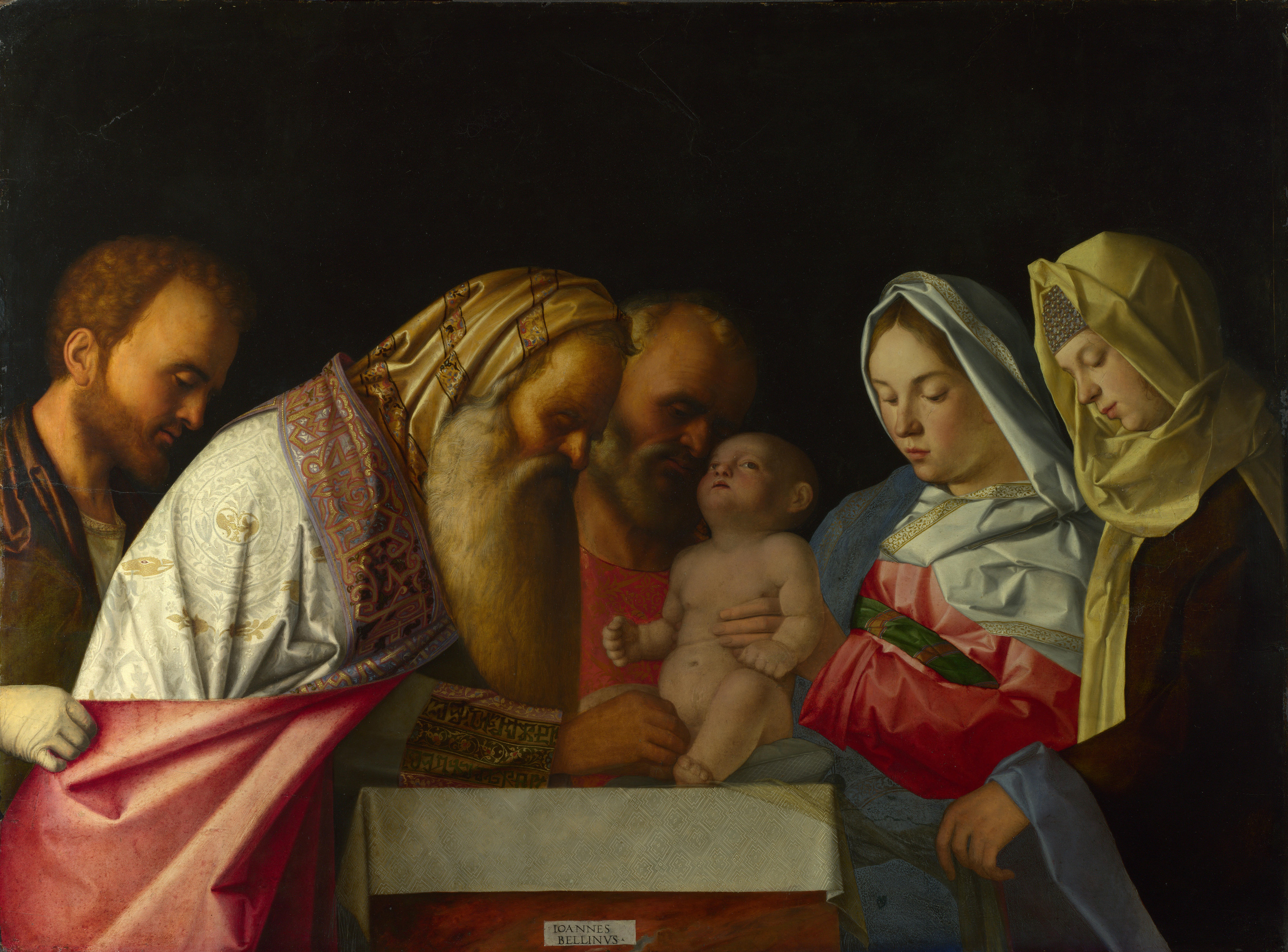 The New Testament relates how after his birth, Jesus was circumcised according to Jewish tradition (Luke 2: 21). The Circumcision about 1500, Workshop of Giovanni Bellini The black background seems to be original. Paintings of this subject were highly popular in Venice in the late 15th and early 16th century; this composition was extremely popular and was much copied and adapted. (says NG)